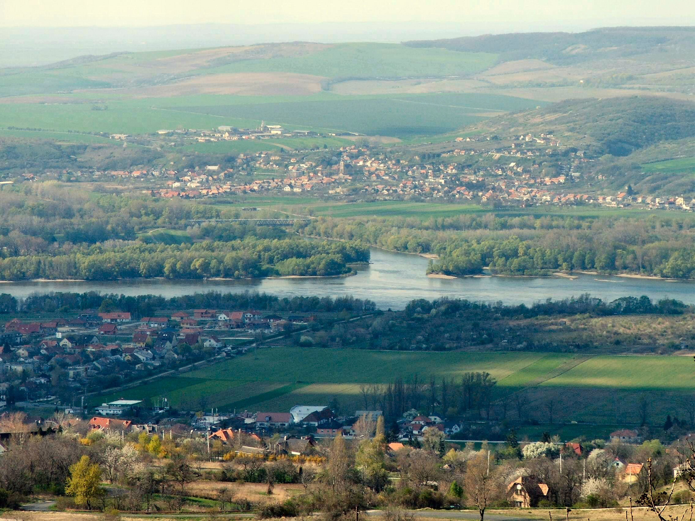 The river Garam (Slovak: Hron) pouring in the Danube at Esztergom.